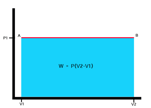 P-V diagram of an isobaric process with the formula for calculating the work.